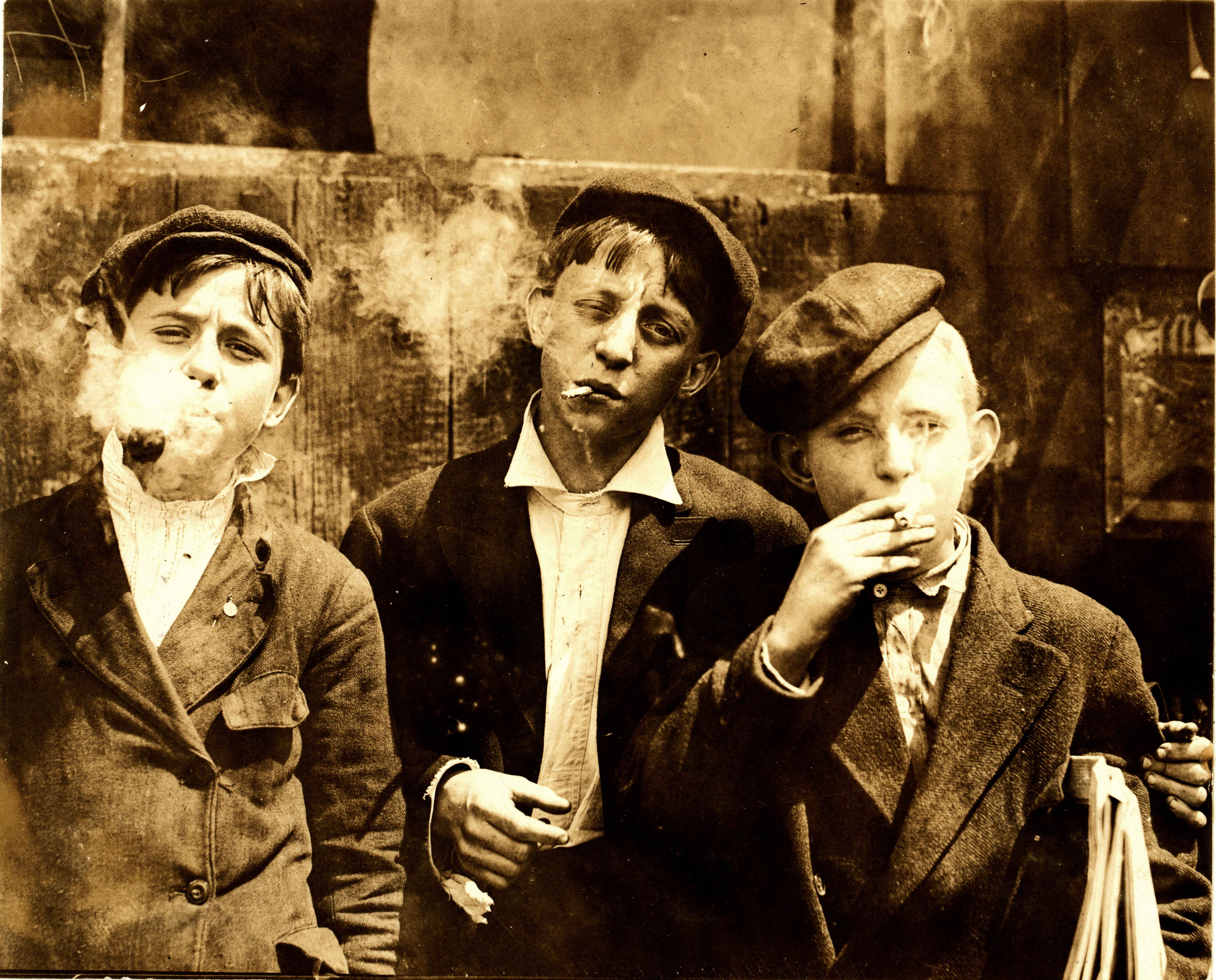 11:00 A. M . Monday, May 9th, 1910. Newsies at Skeeter's Branch, Jefferson near Franklin. They were all smoking. Location: St. Louis, Missouri. Photograph by Lewis Wickes Hine, 9 May 1910.